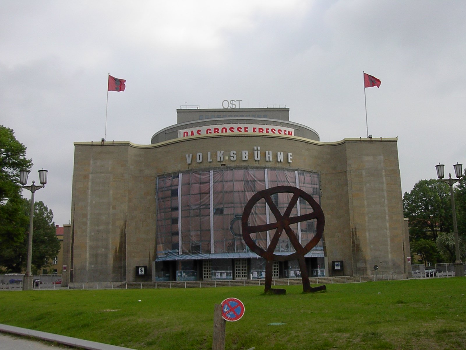 Volksbühne, May 2006